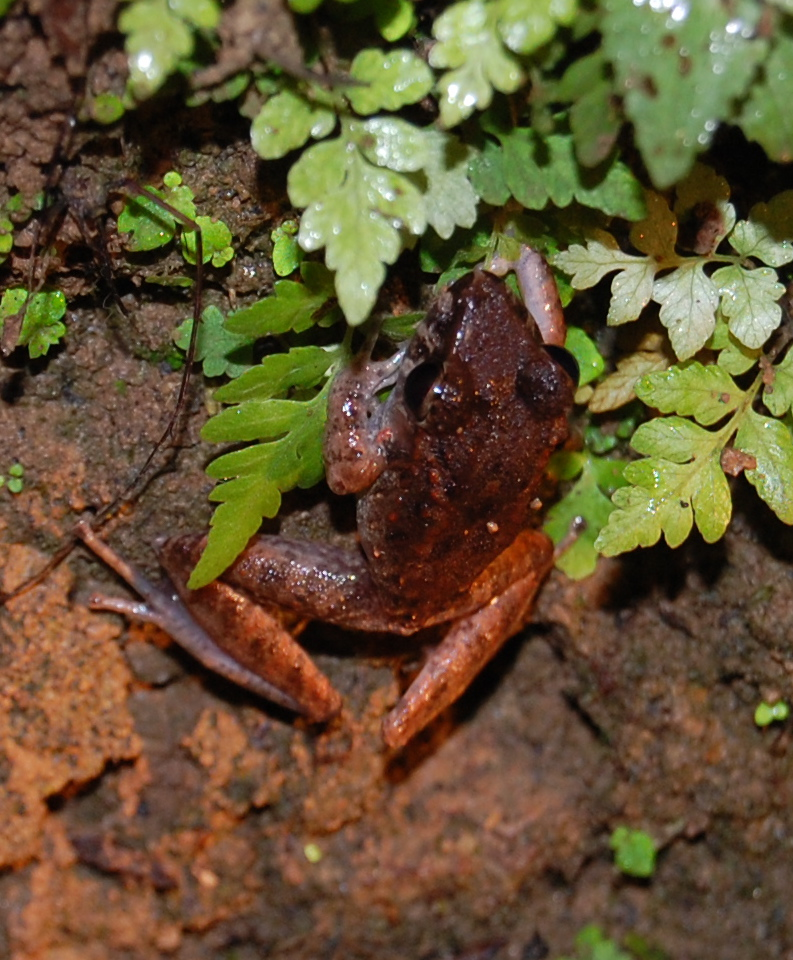 Craugastor crassidigitus (a.k.a. Eleutherodactylus crassidigitus) observed at night in the Osa Peninsula, Costa Rica.